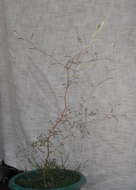 mamane ex hortus